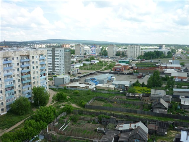 Kan-Perevoz